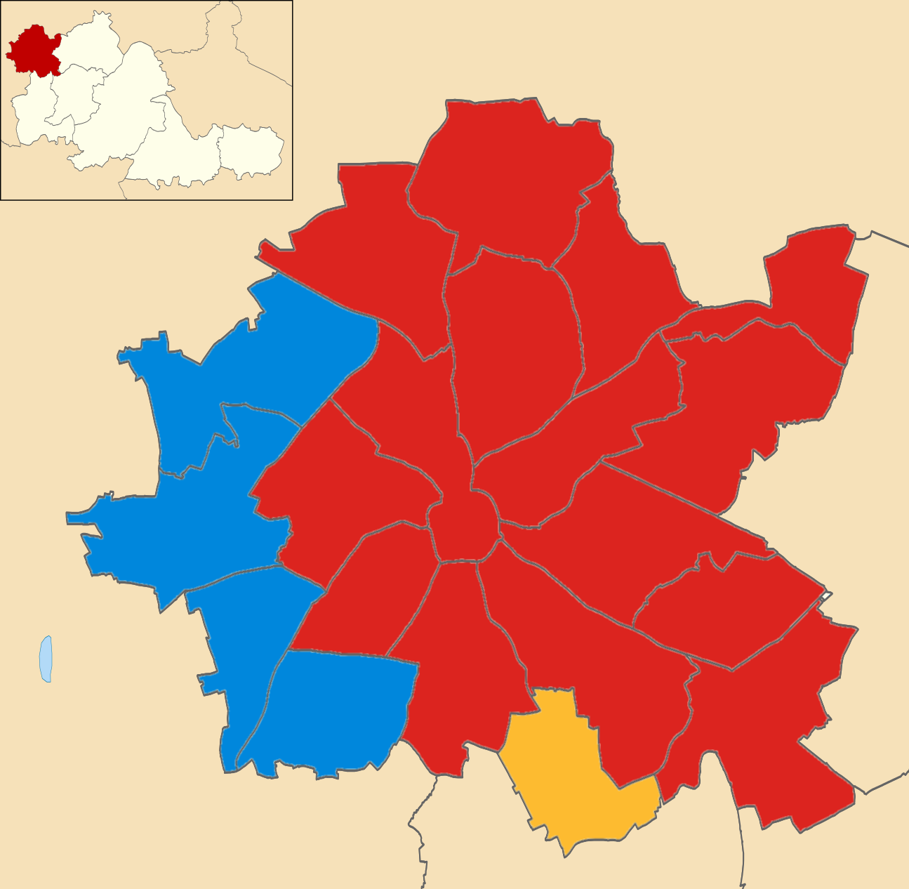 Results of the 2011 local elections in Wolverhampton Colours: Conservative Labour Liberal Democrat